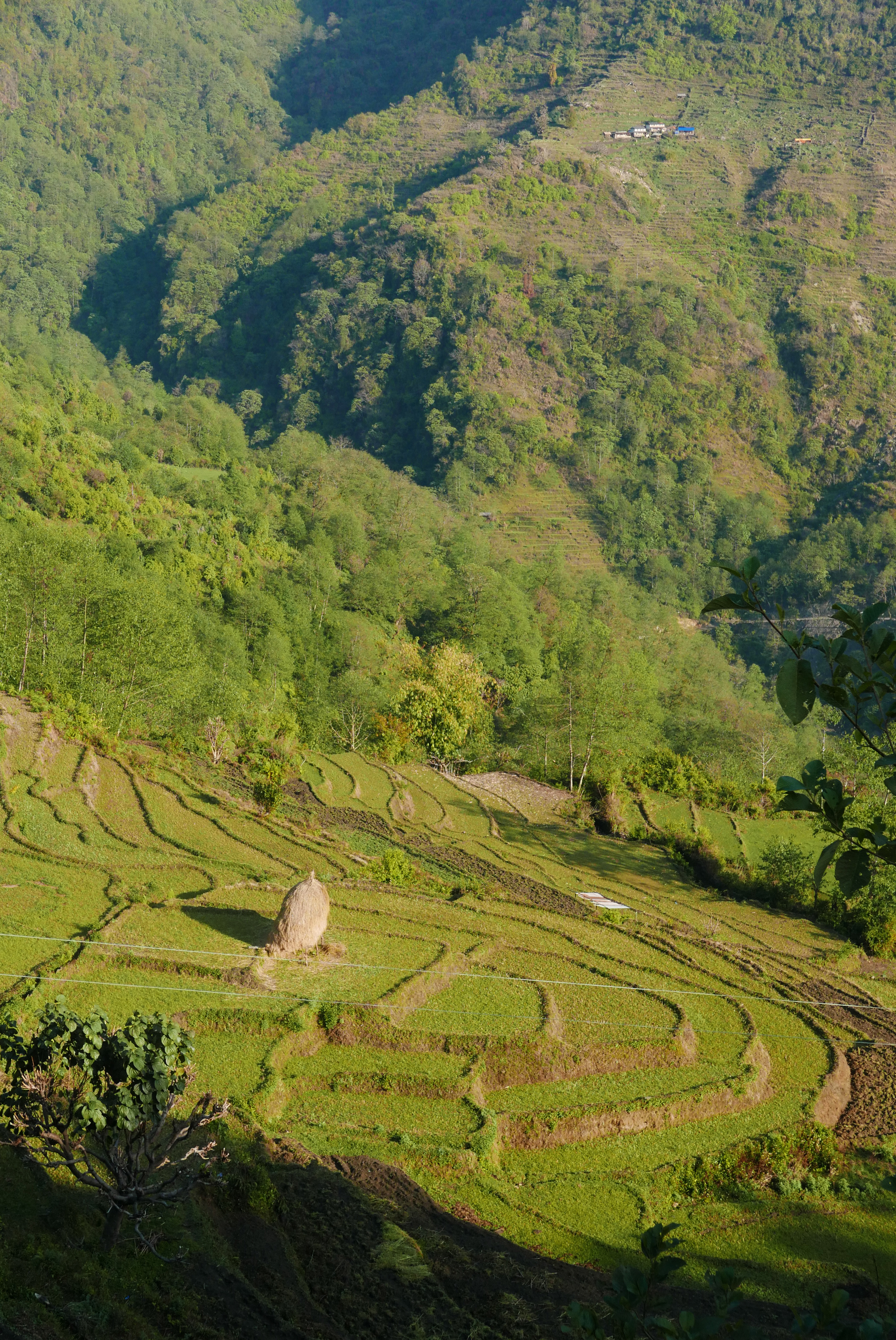 Mardi Himal Trek is popular trekking destination in Nepal. The view of Terraced farms is seen from Phedi in route to Deurali.